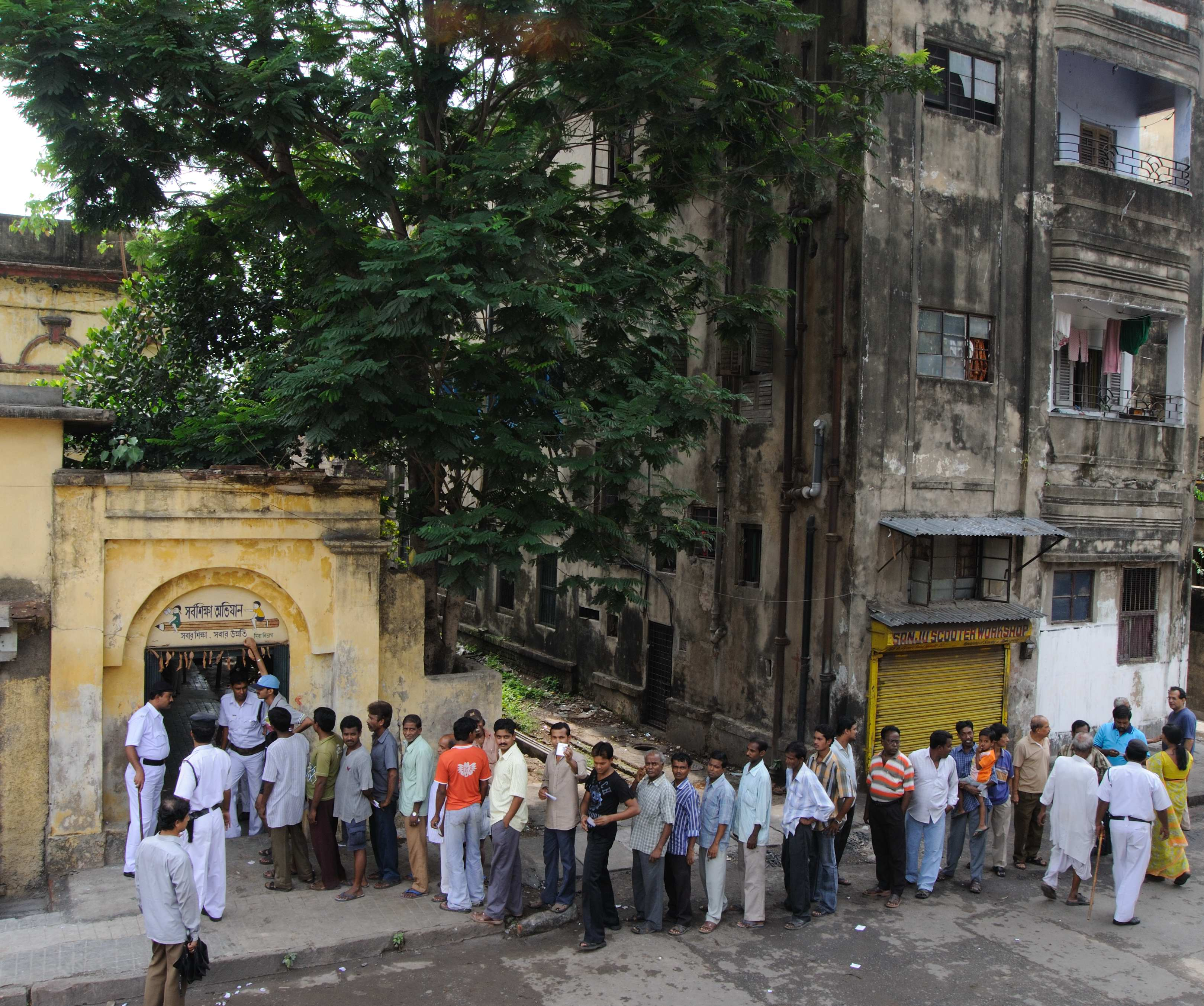 More than 100 million people across nine states were eligible to vote in the fifth and final phase of polling on Wednesday. Photo by Goutam Roy